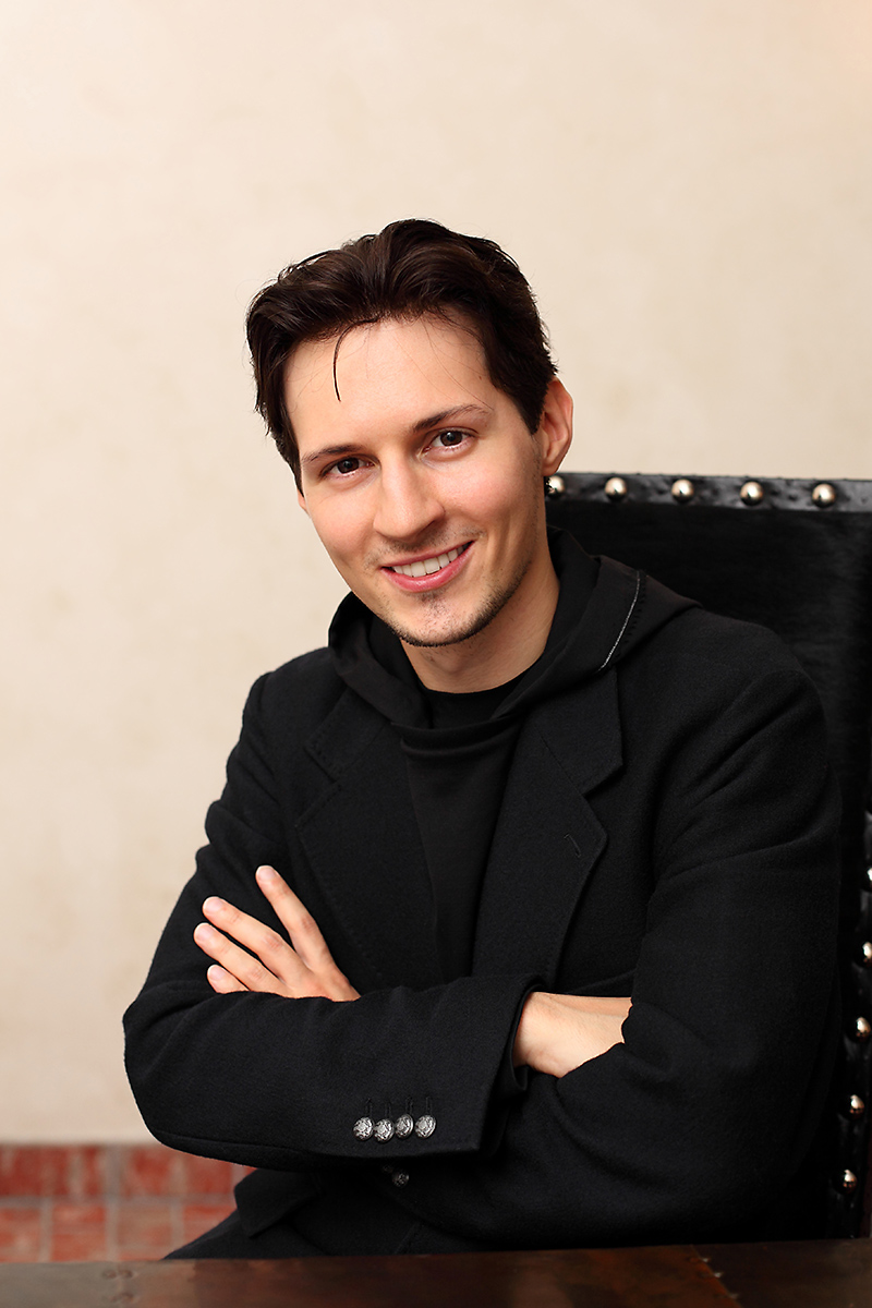 Pavel Valeryevich Durov is a Russian entrepreneur, best known for being the founder of the social networking site VK, and later the Telegram Messenger.